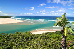 Great Kei River mouth.